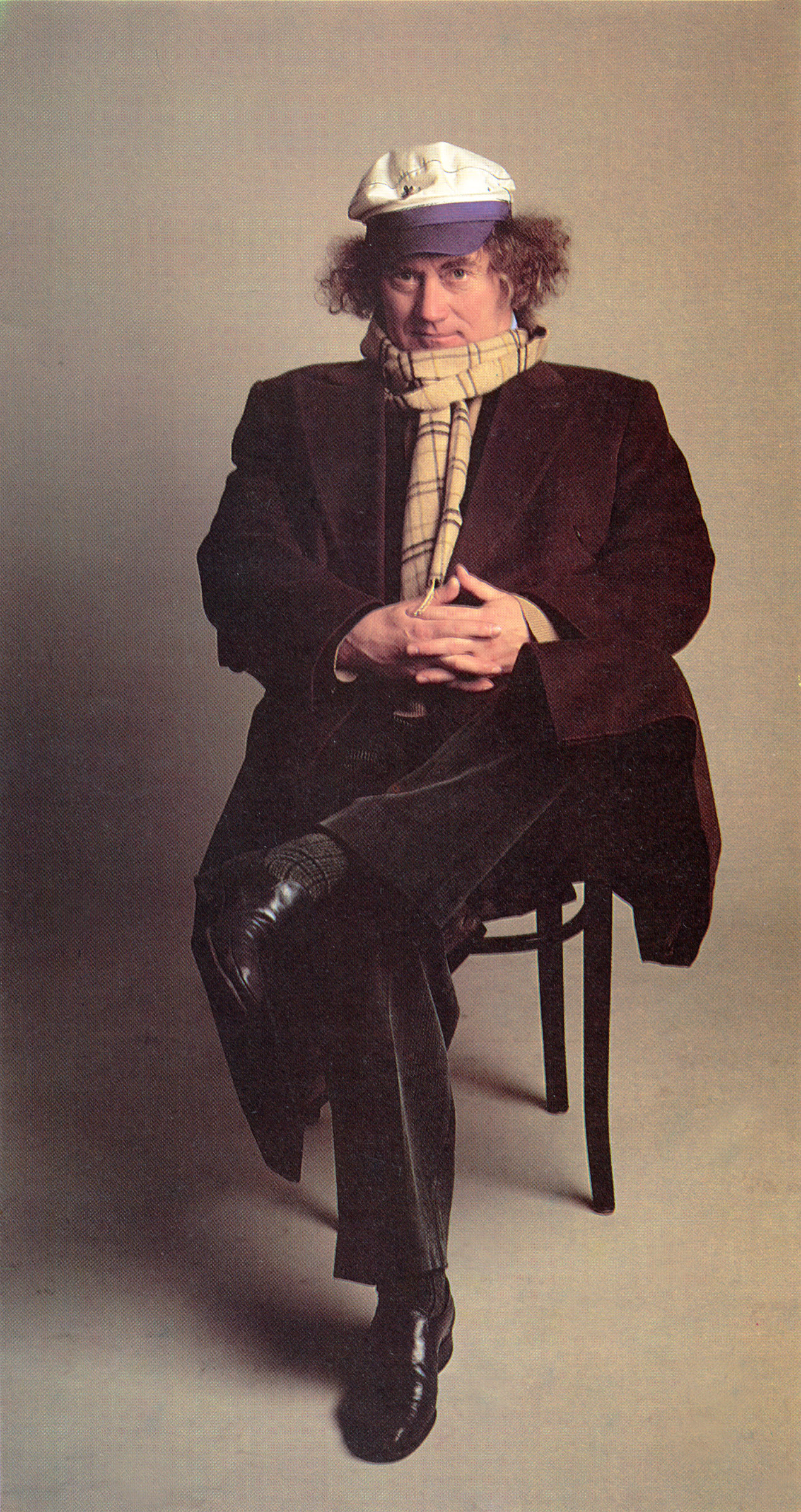 Jerzy Maksymiuk, Polish conductor